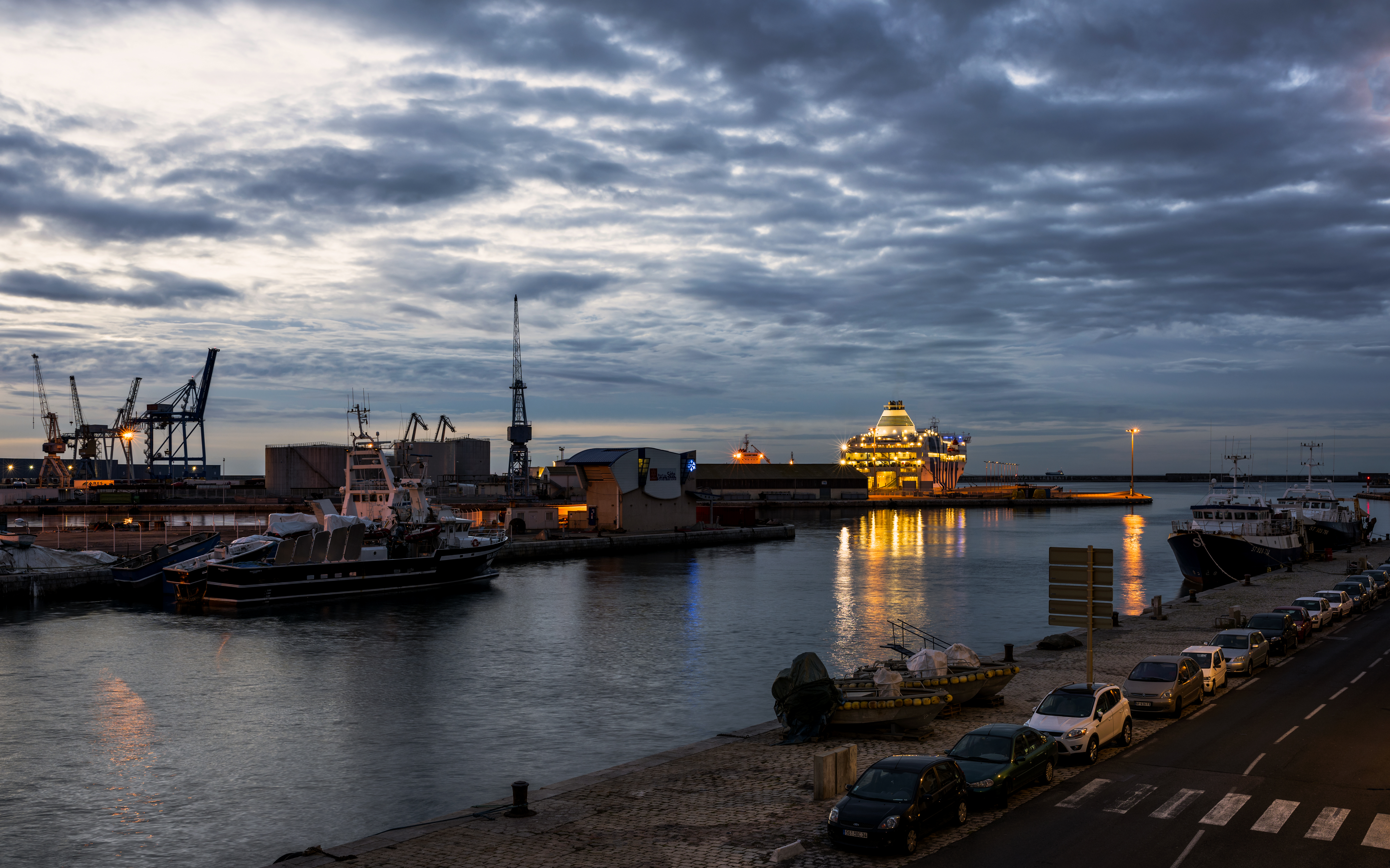 Dawn on the harbour of Sète, Hérault, France